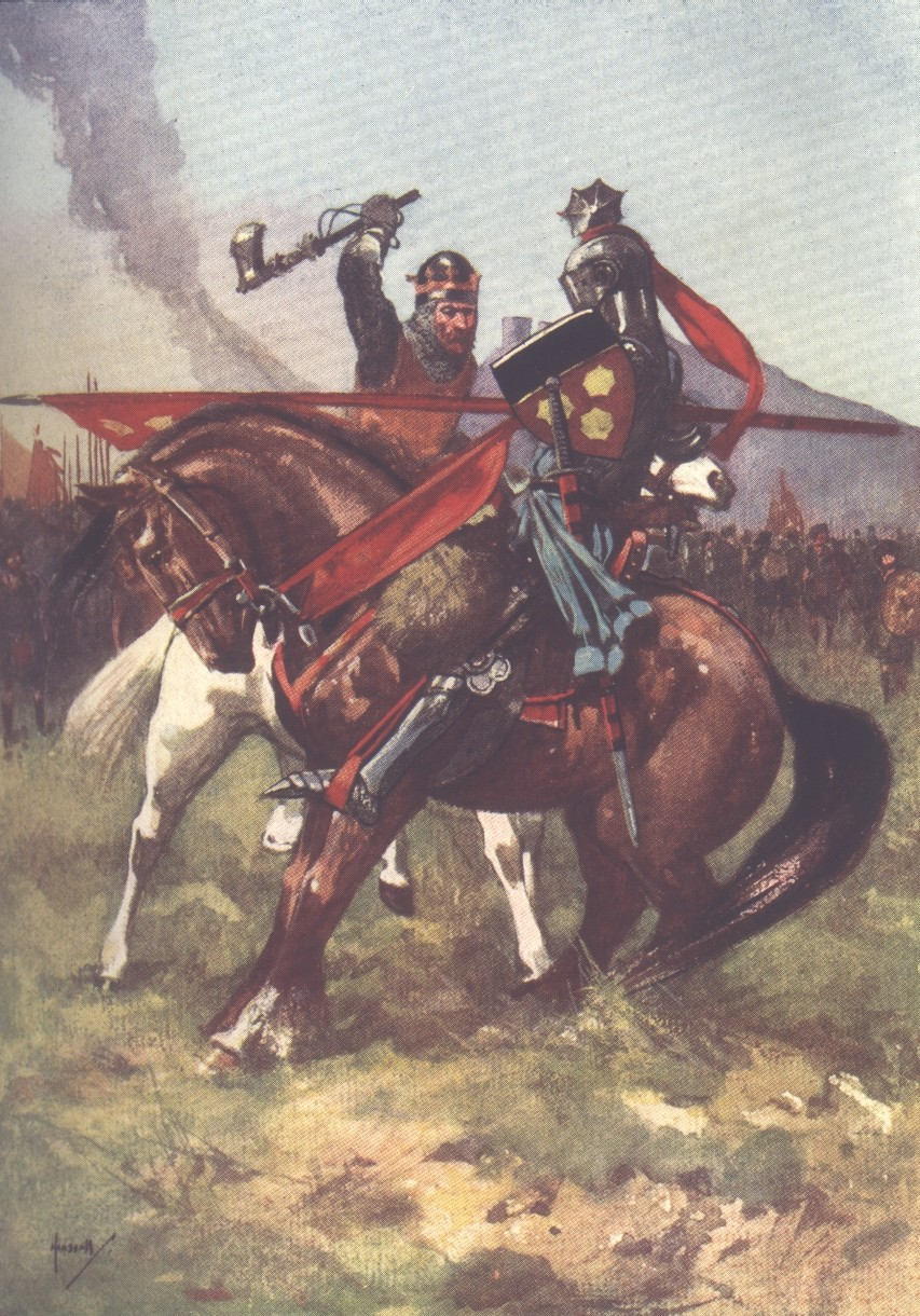 A depiction of the clash between the Bruce and de Bohun on the first day of the Battle of Bannockburn, from H E Marshall's 'Scotland's Story', published in 1906